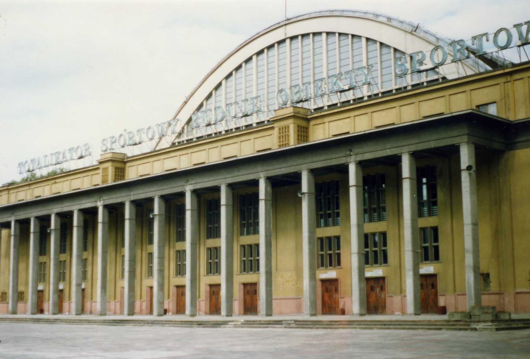 Sports Hall in Łódź (Poland).